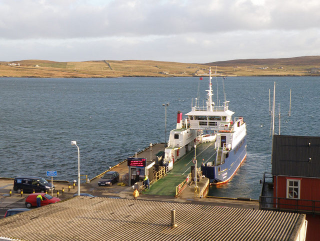 Bressay Ferry The Bressay Ferry, Leirna, as seen from Fort Charlotte.